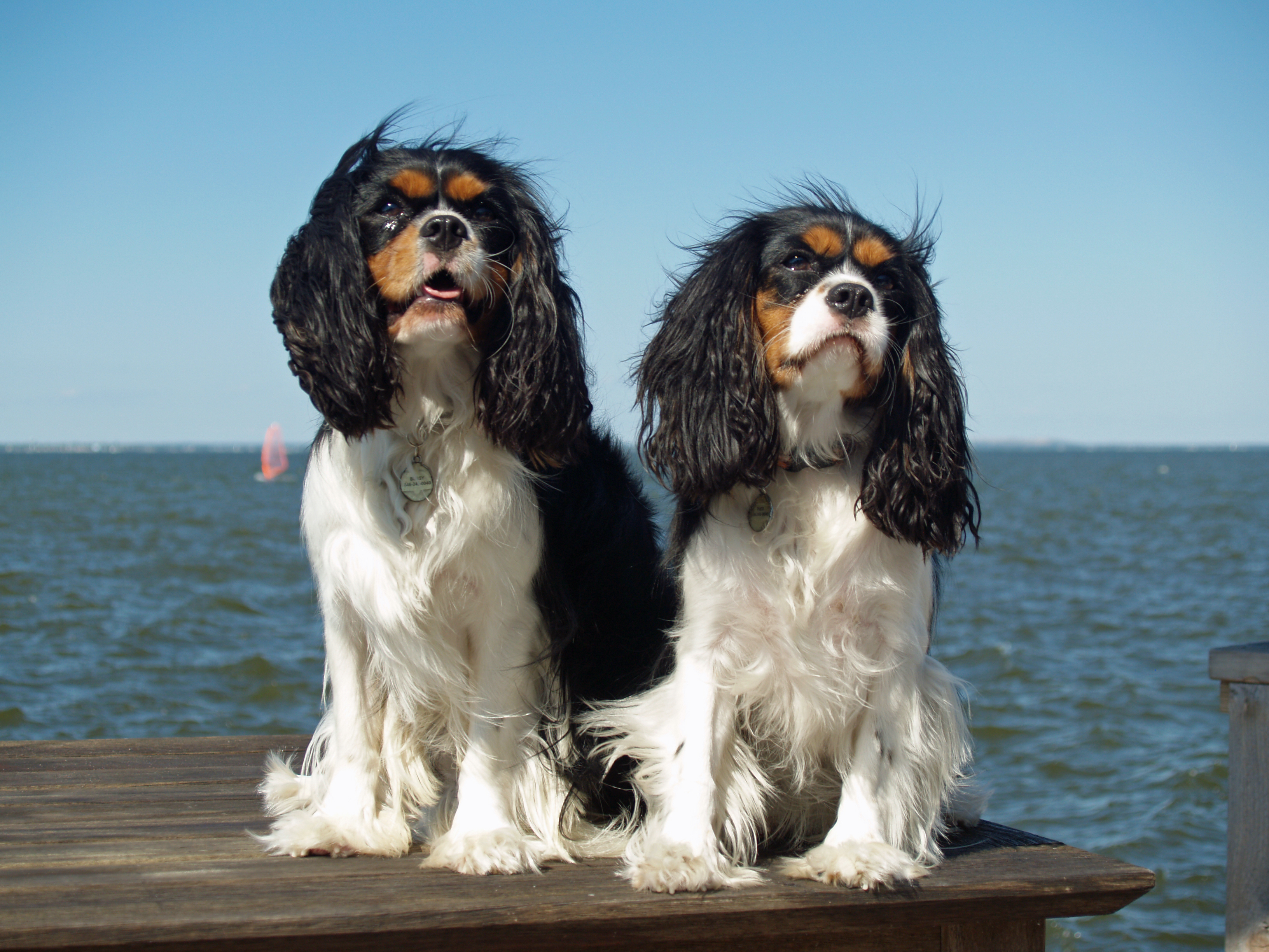 This image is licensed Creative Commons and is part of a public art project. Click here to see more. (About David Shankbone)